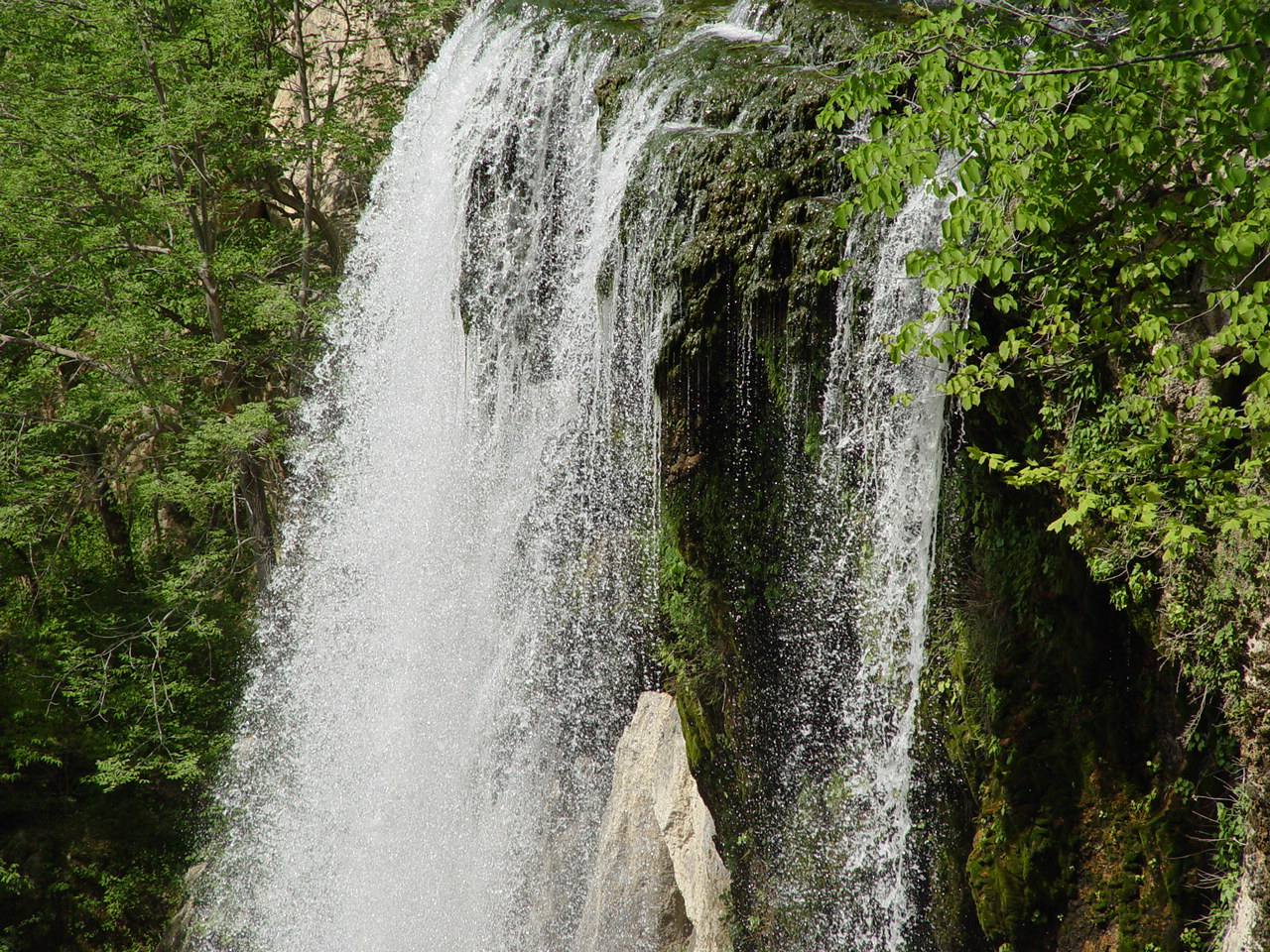 Falling Springs is located on Route 220 North of Covington, Virginia